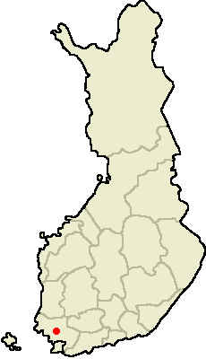 I'm the author, from a blank map